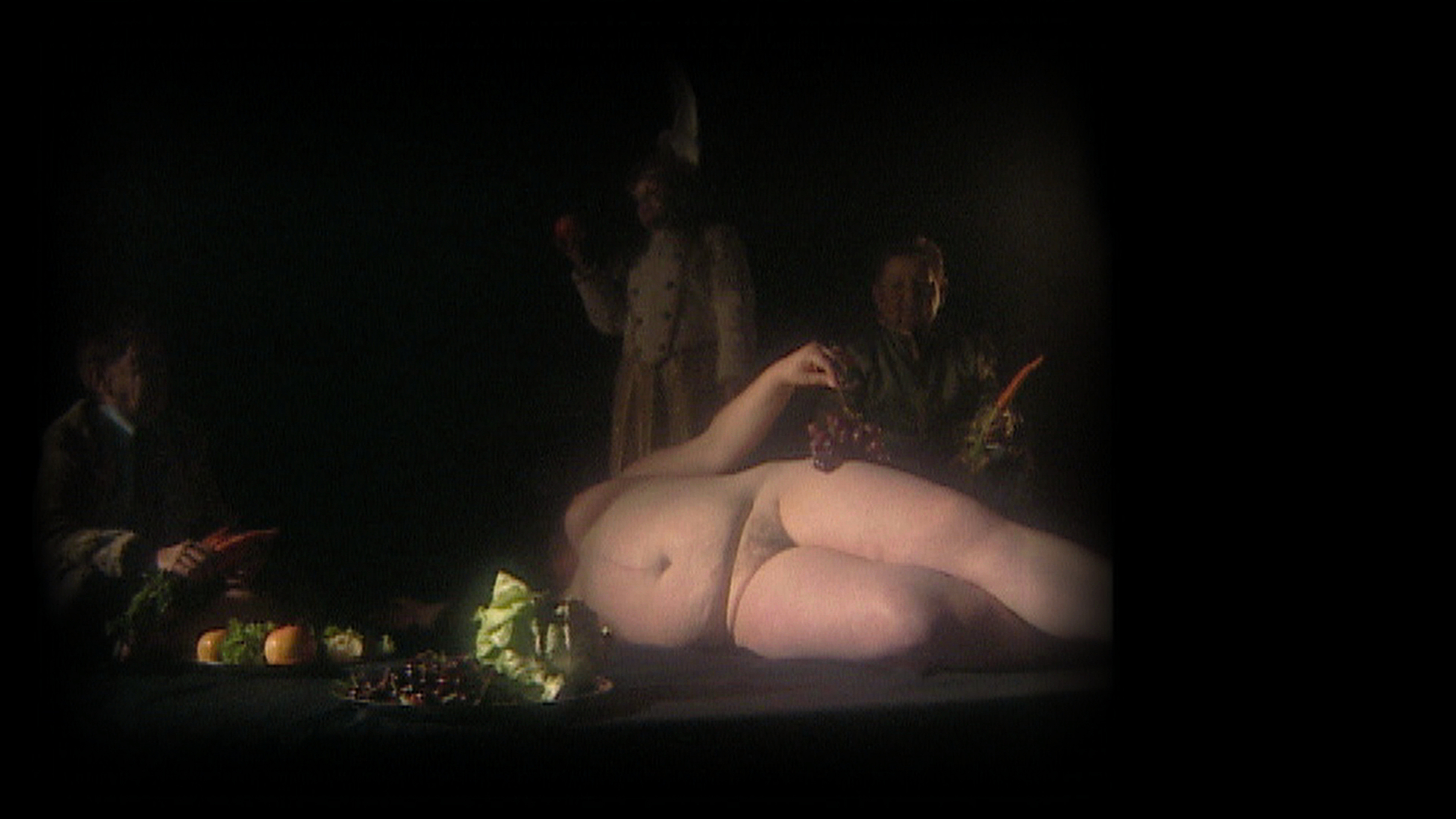 Still from Merry-Go-Round, short movie